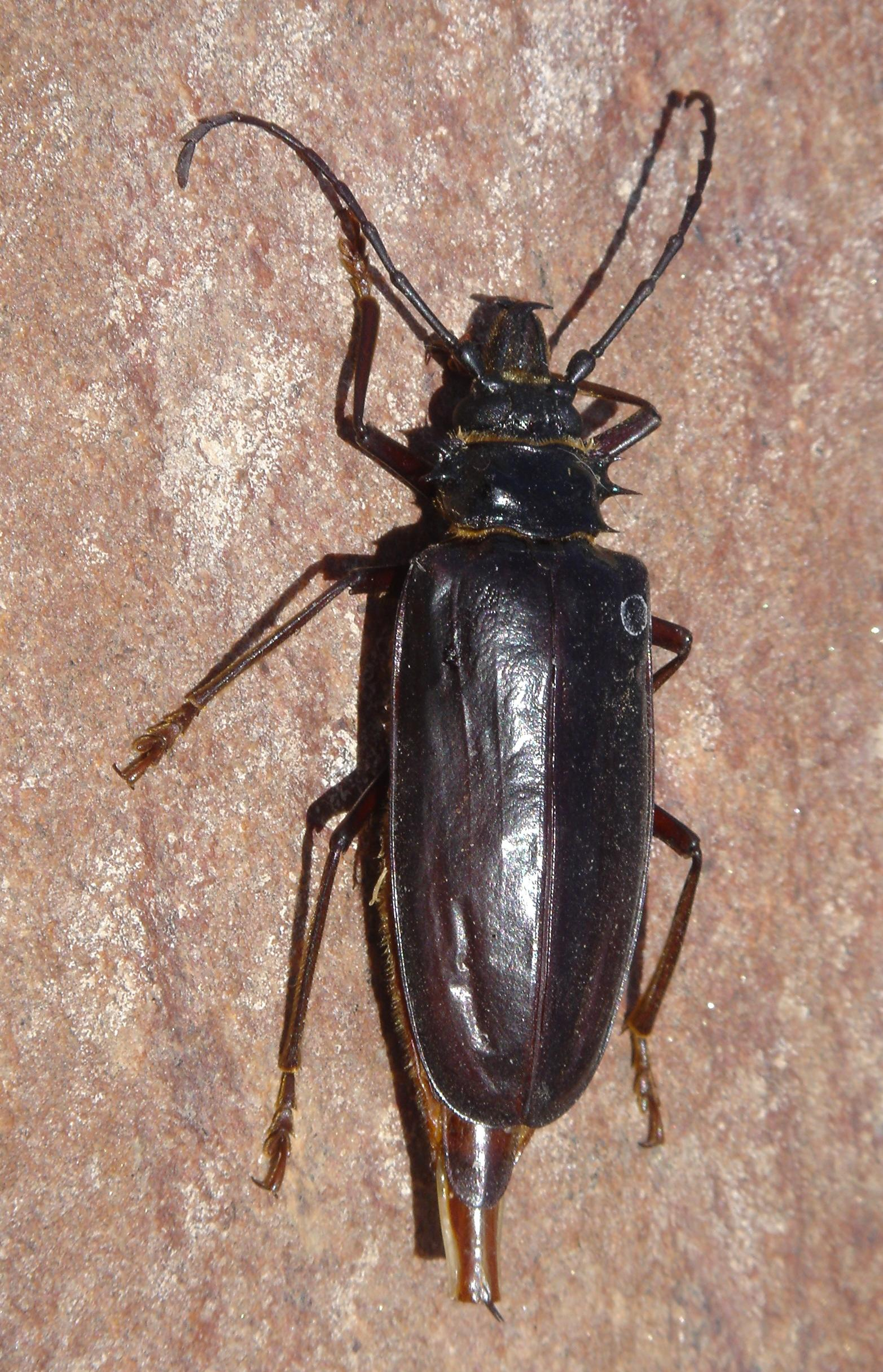 Anthracocentrus capensis, Prioninae, in Namibia.Etym.: anthrakos coal (black), kentron spur (of the pronotum), capensis Cape of Good Hope, South Africa